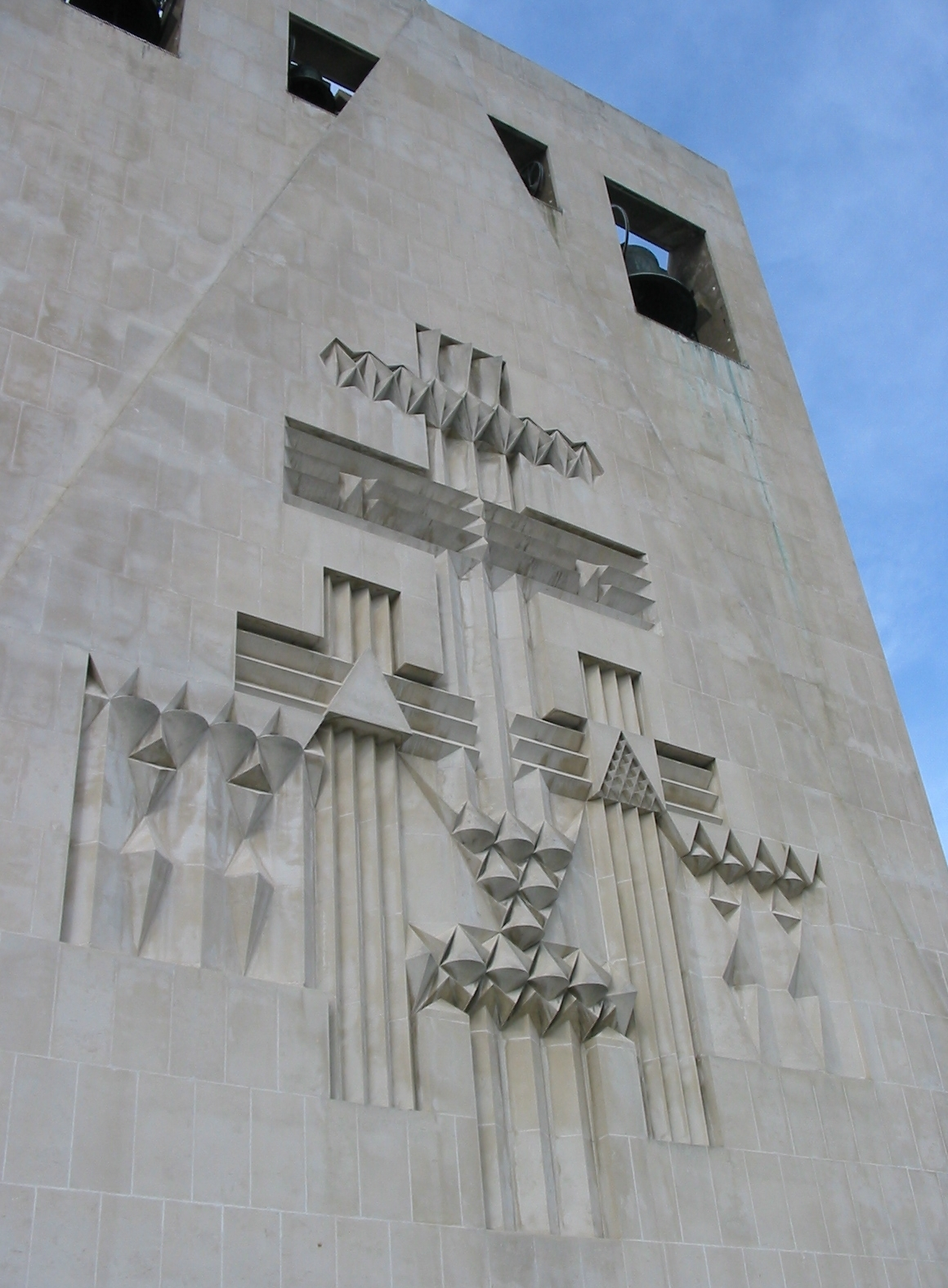 Liverpool